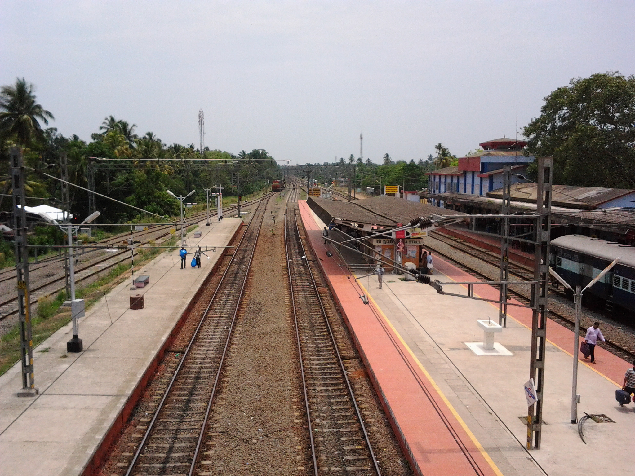 Broad Gauge